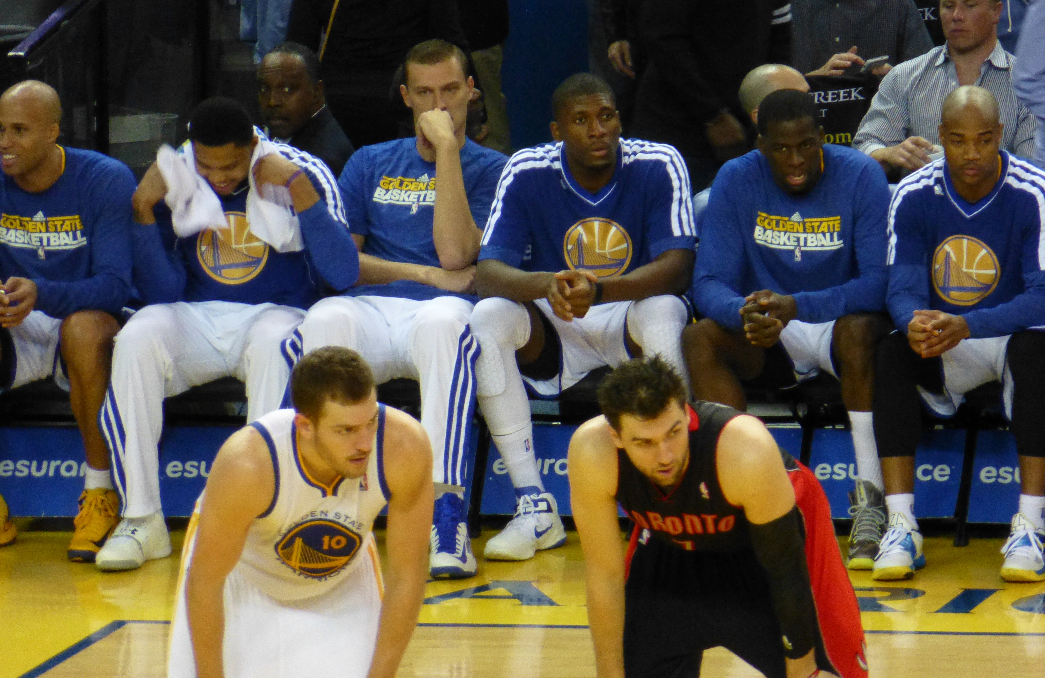 David Lee and Andrea Bargnani, Toronto Raptors at Golden State Warriors March 4, 2013 Bench: L-R: Richard Jefferson, Kent Bazemore, Andris Biedriņš, Festus Ezeli, Draymond Green, and Jarrett Jack